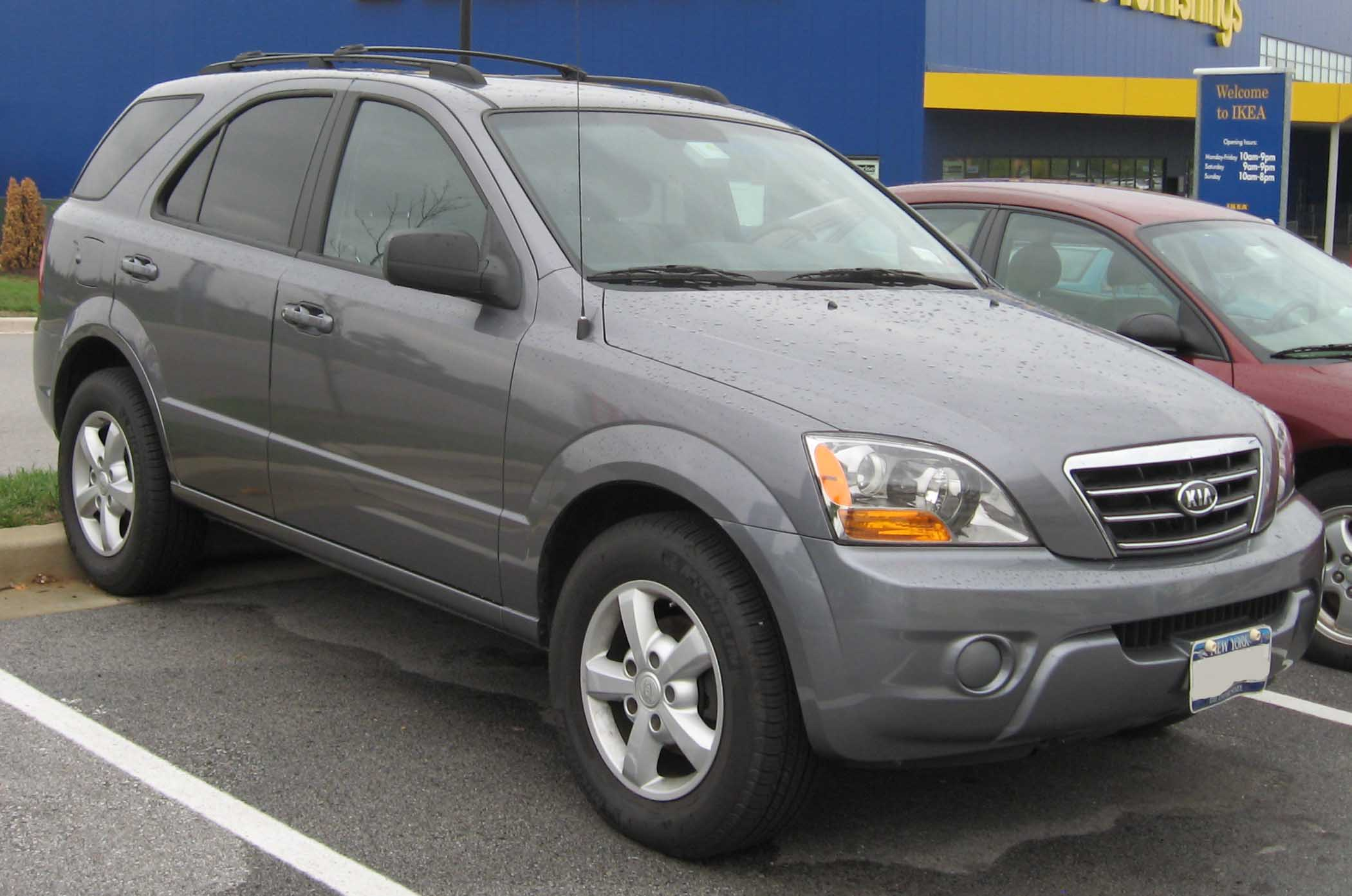 2007 Kia Sorento photographed in College Park, Maryland, USA.